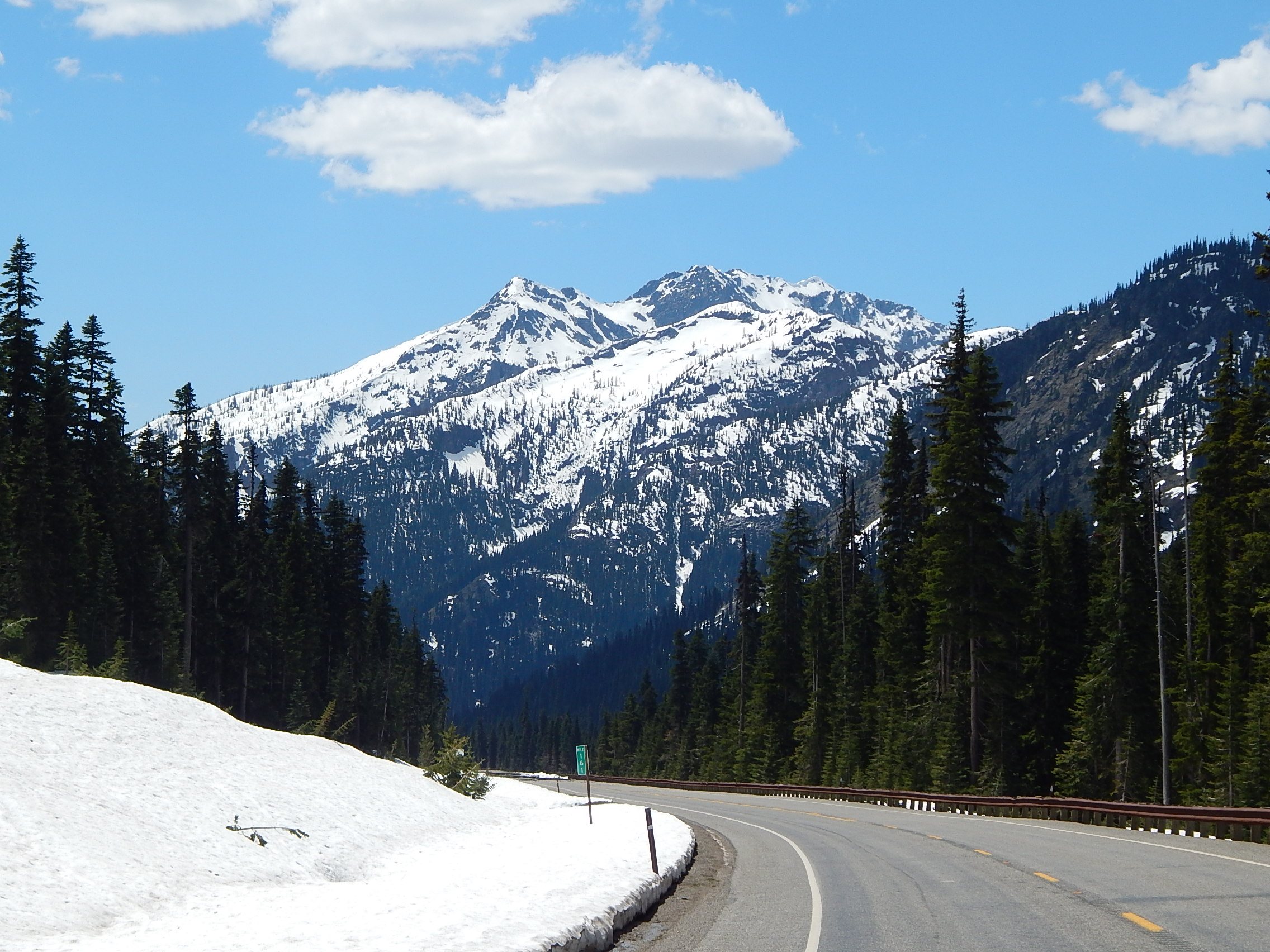 Rainy Peak in the North Cascades seen from westbound Highway 20